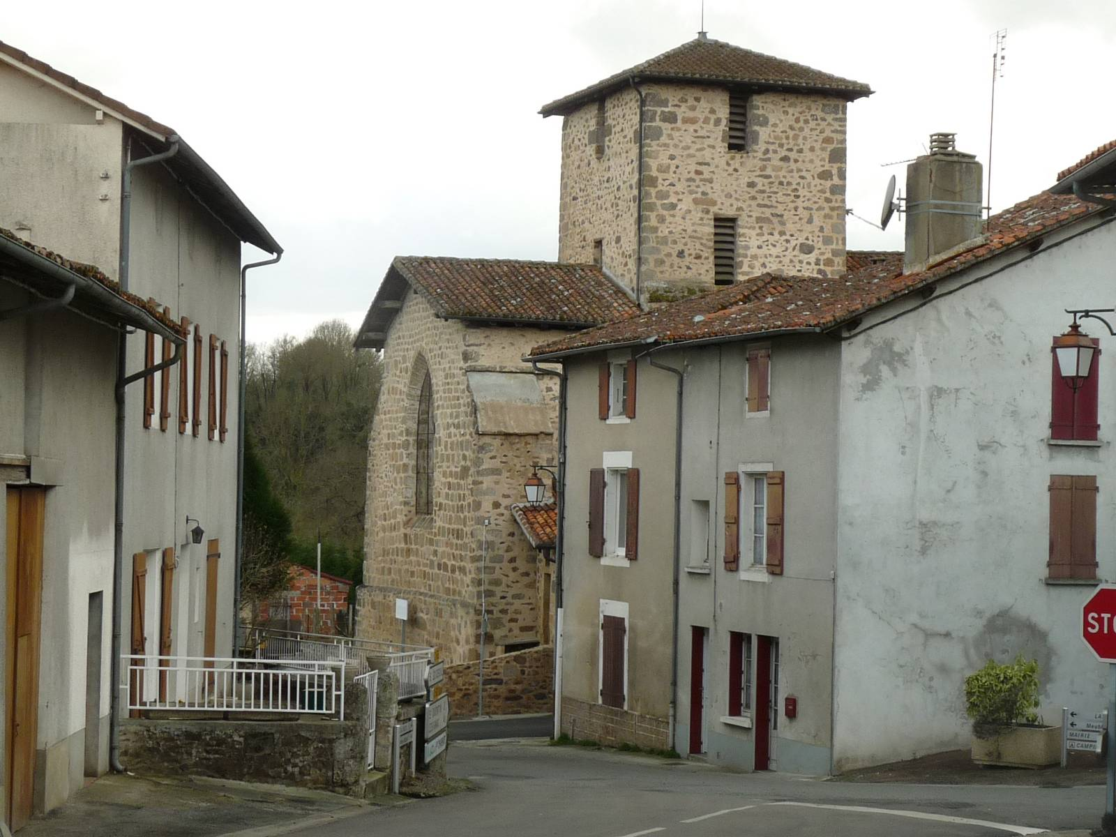 Church of Suris, Charente department, France